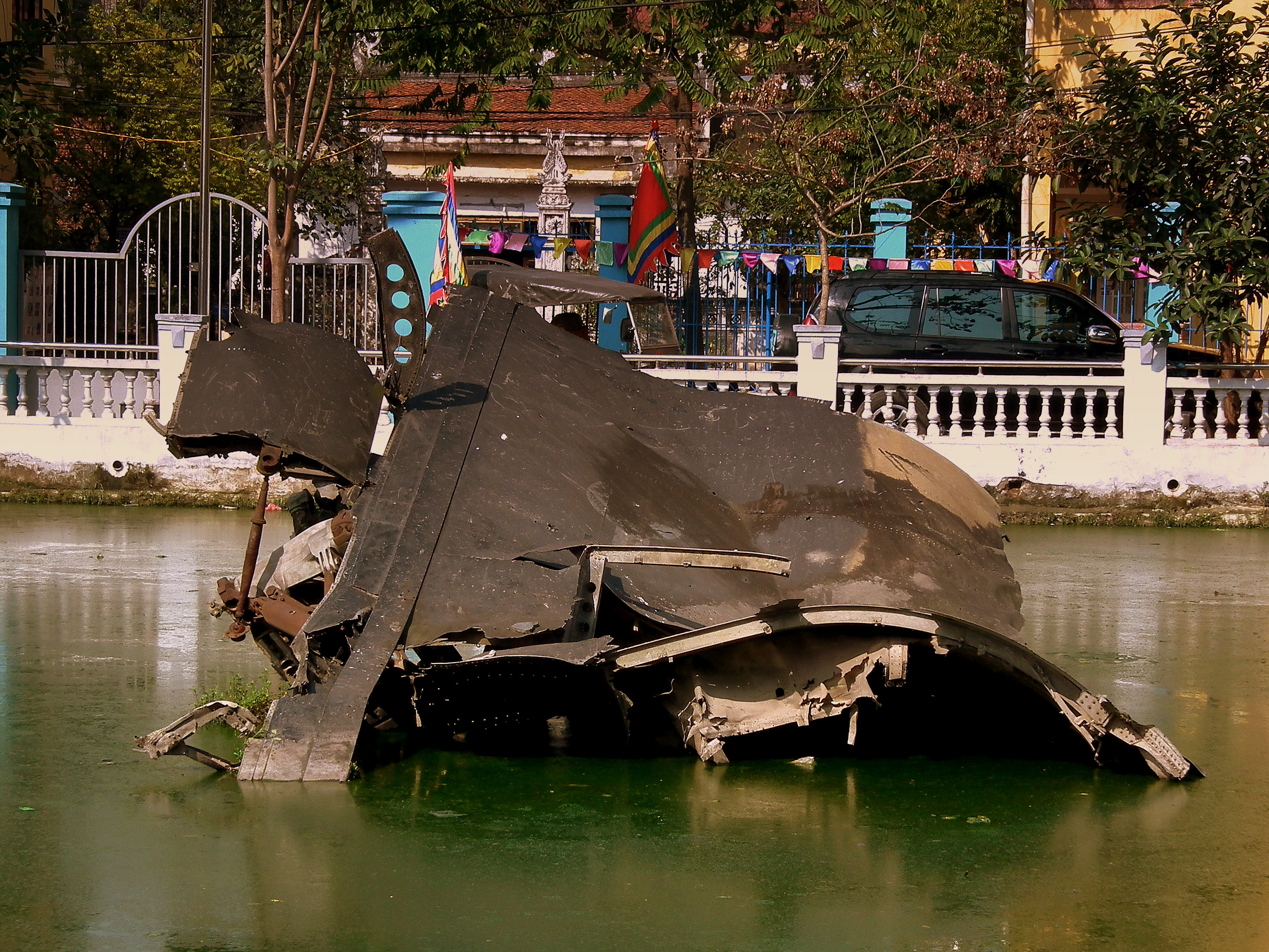 B52 CRASH WRECKAGE AT HUU TIEP LAKE(AKA B52 LAKE)HA NOI VIETNAM FEB 2012